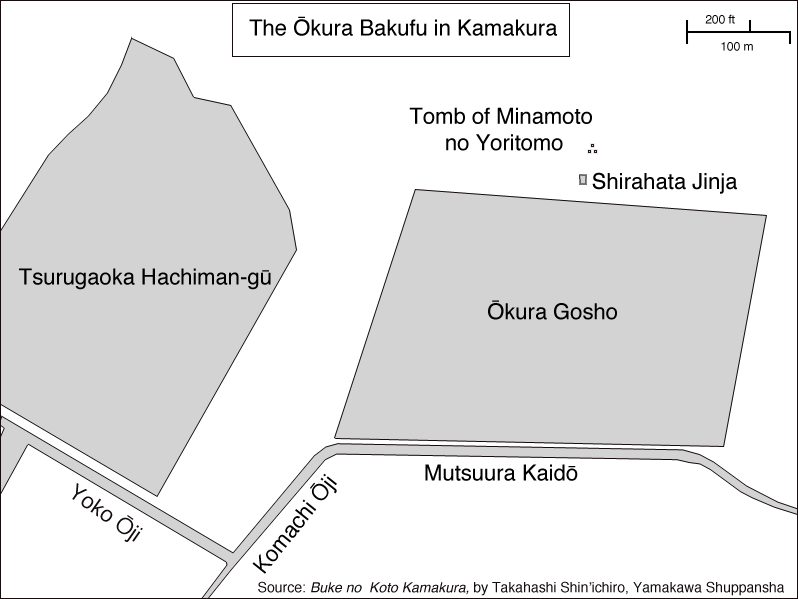 A map of Minamoto no Yoritomo's government building's position in Kamakura